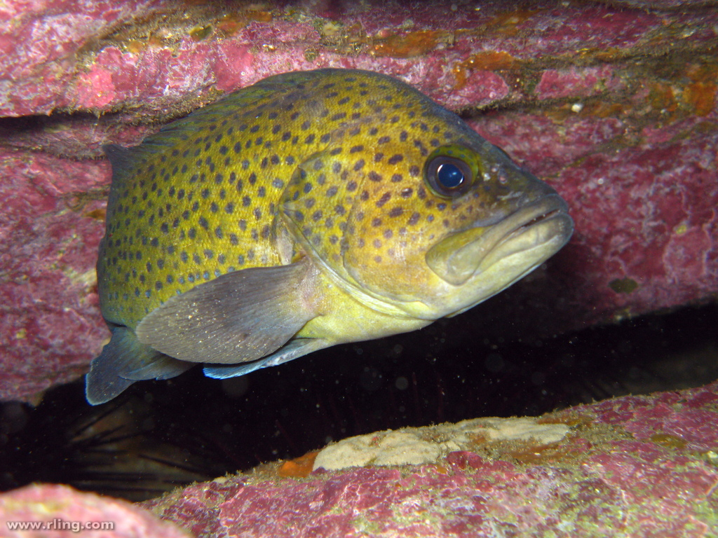 An Eastern Wirrah (Acanthistius ocellatus) in a rocky crevice. Fairy Bower, Manly, NSW